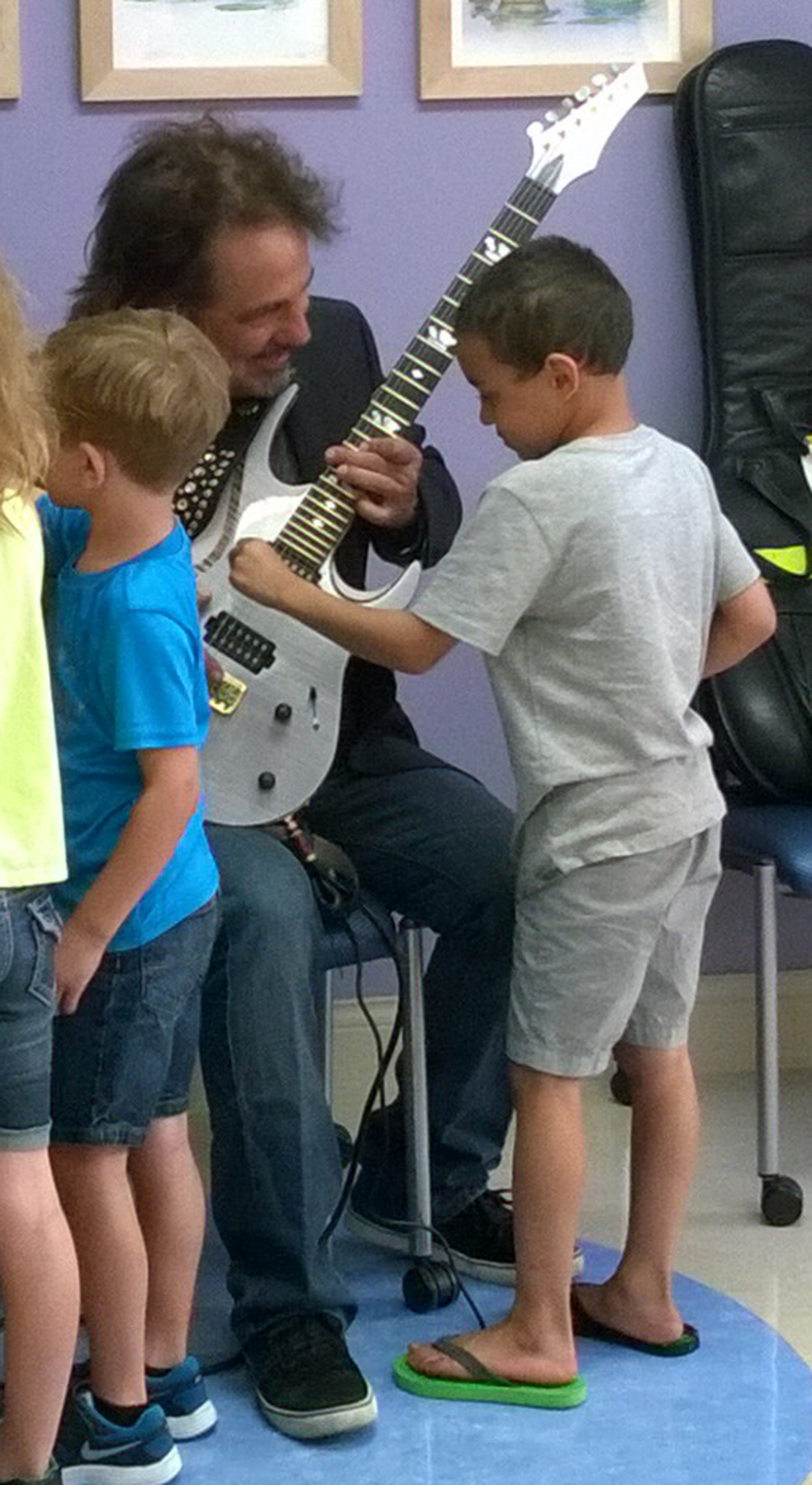 Craig bringing music therapy to Renown Children’s Hospital in Reno, Nevada in 2016 (Dara Crockett)